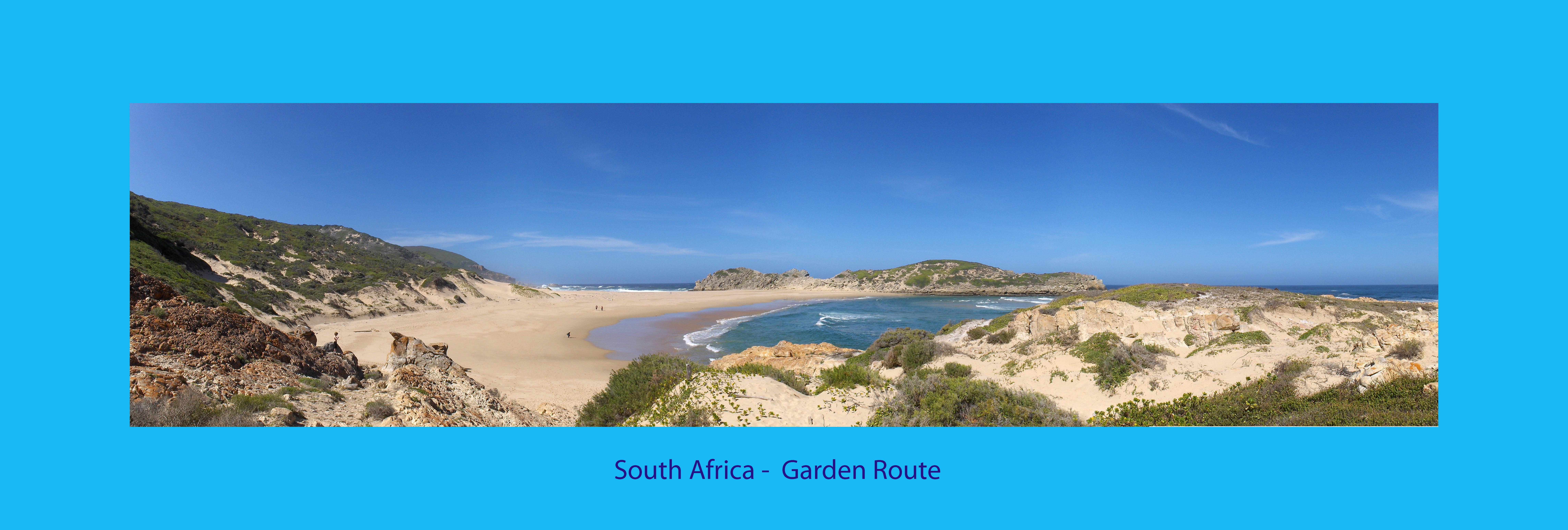 South Africa Gardenroute Plettenberg Bay